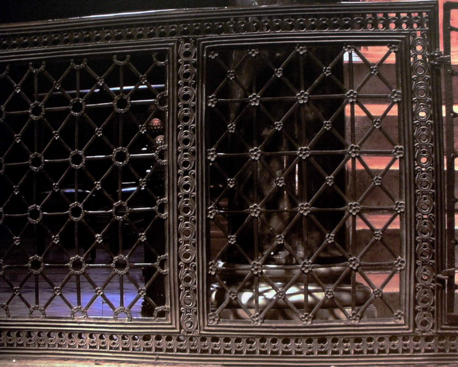 Carolingian bronze screen (ca 800-805), in front of the throne of Charlemagne, on the upper level of the Palatine chapel of Aachen Cathedral.